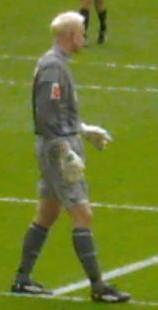 Peter Enckelman